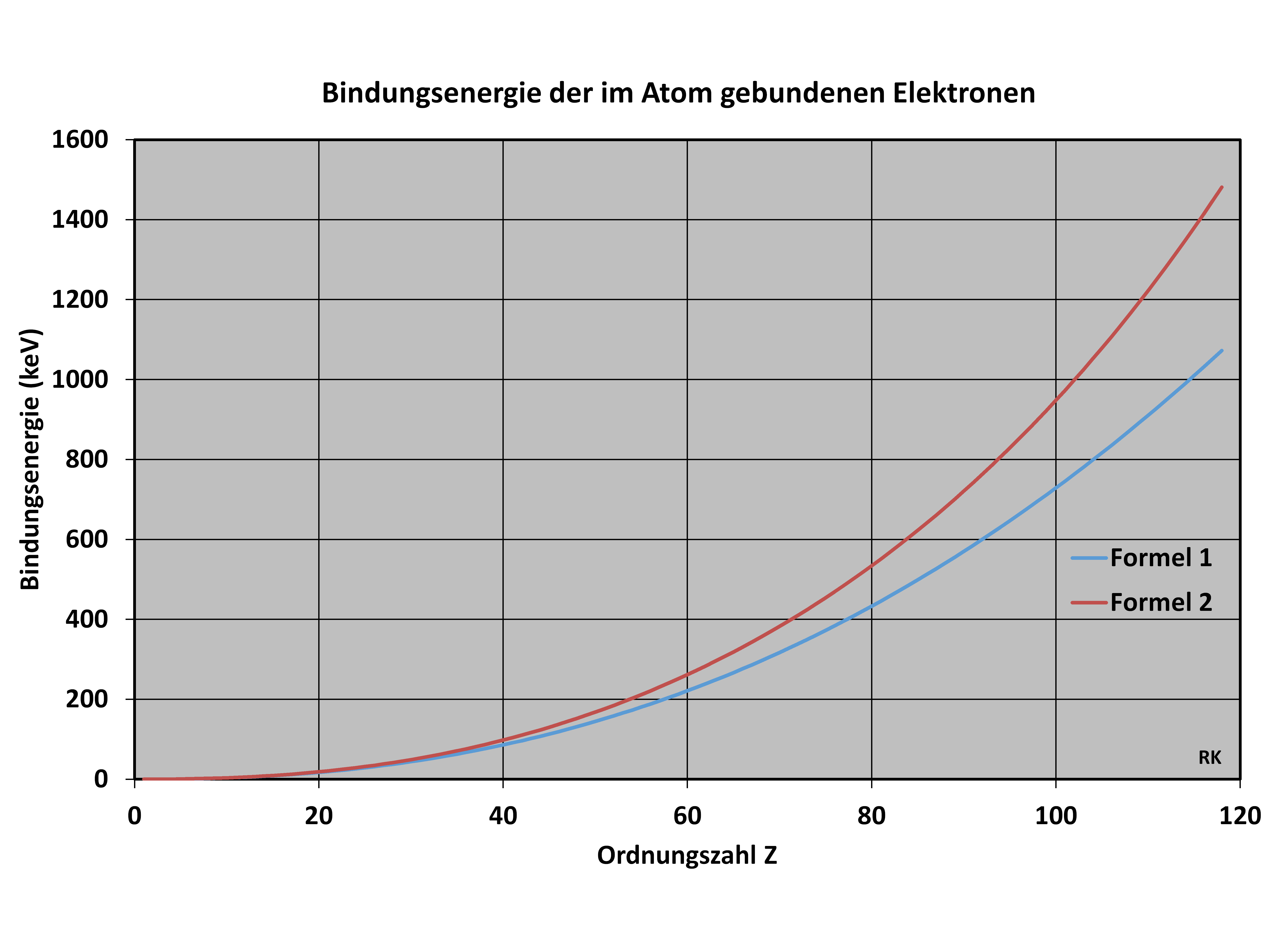 Binding energy of the electrons bound in the atom